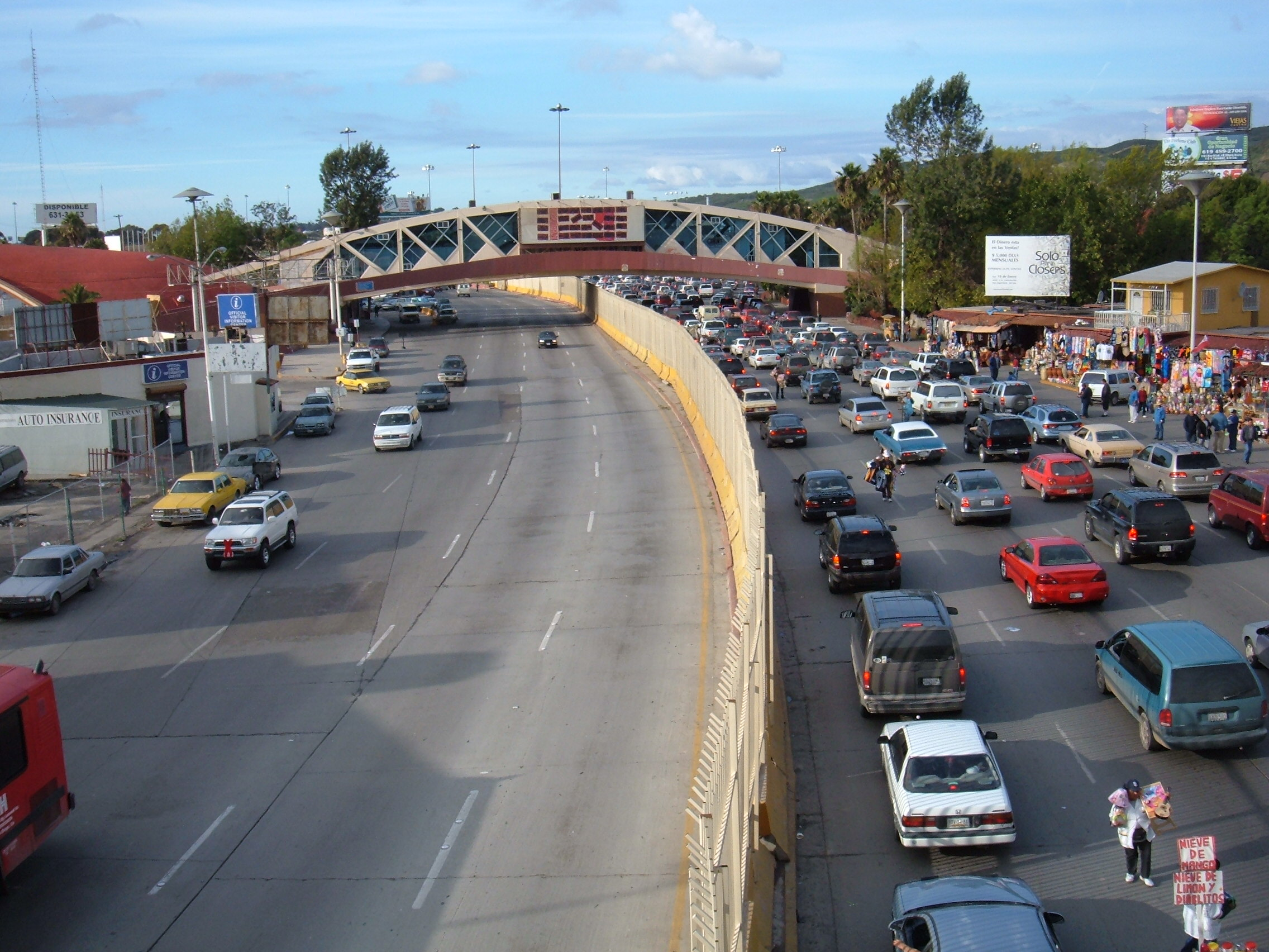 Congestion on approach to at the Tijuana-San Ysidro border crossing — traffic on the right in Tijuana is heading north to enter California/the United States. The Méxican El Chaparral Point of Entry, and U.S. San Ysidro Port of Entry, are out of view.